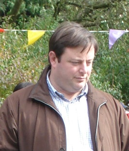 Bart De Wever